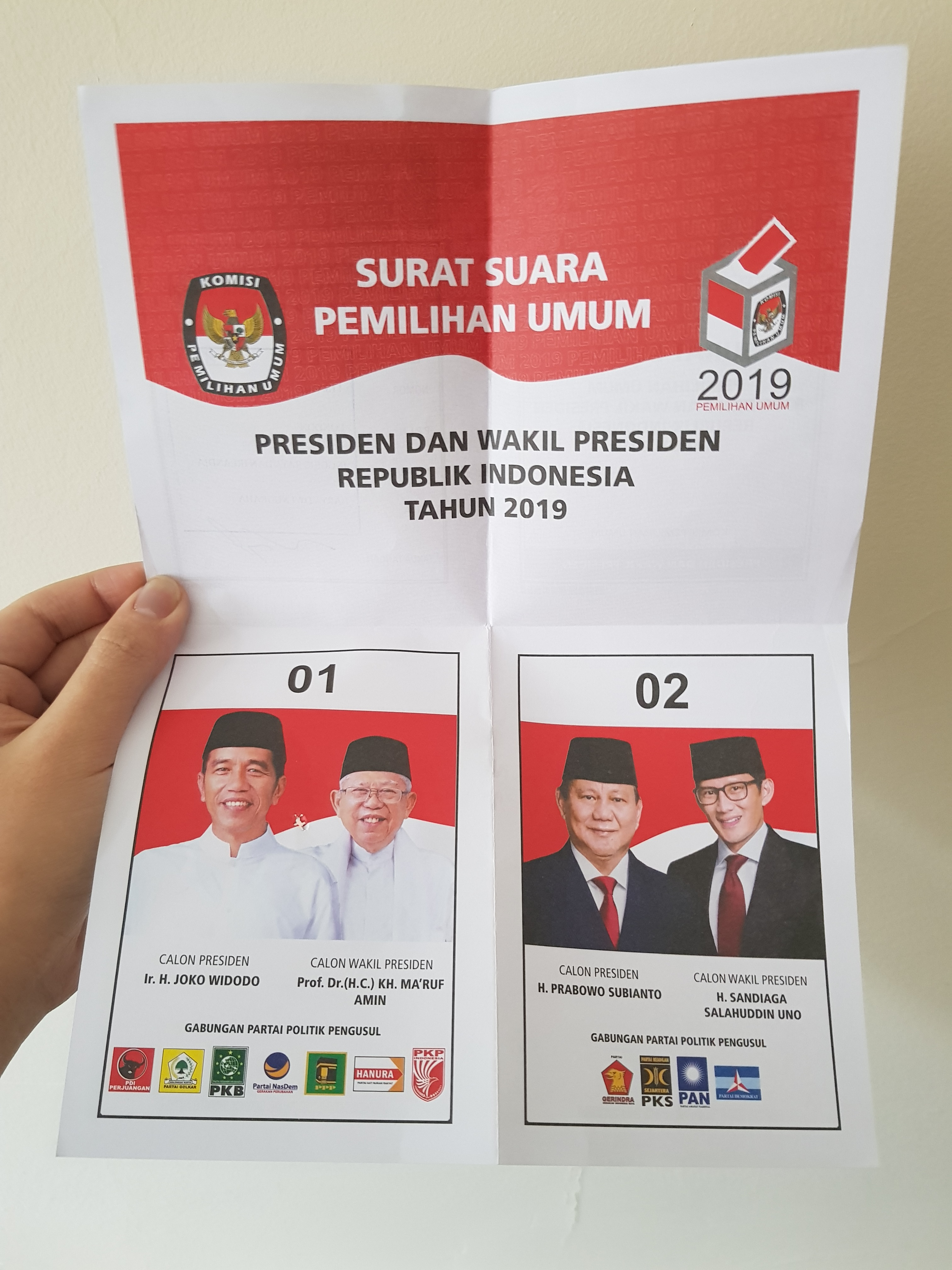 A ballot paper for the 2019 Indonesian presidential election. The ballot is punched at box 01, in favour of incumbent candidate Joko Widodo.